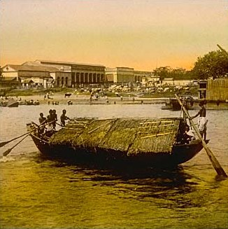 Calcutta - 3 Oarsmen pulling long narrow passenger boat (Jackson's own caption) Magic lantern image from Bengal